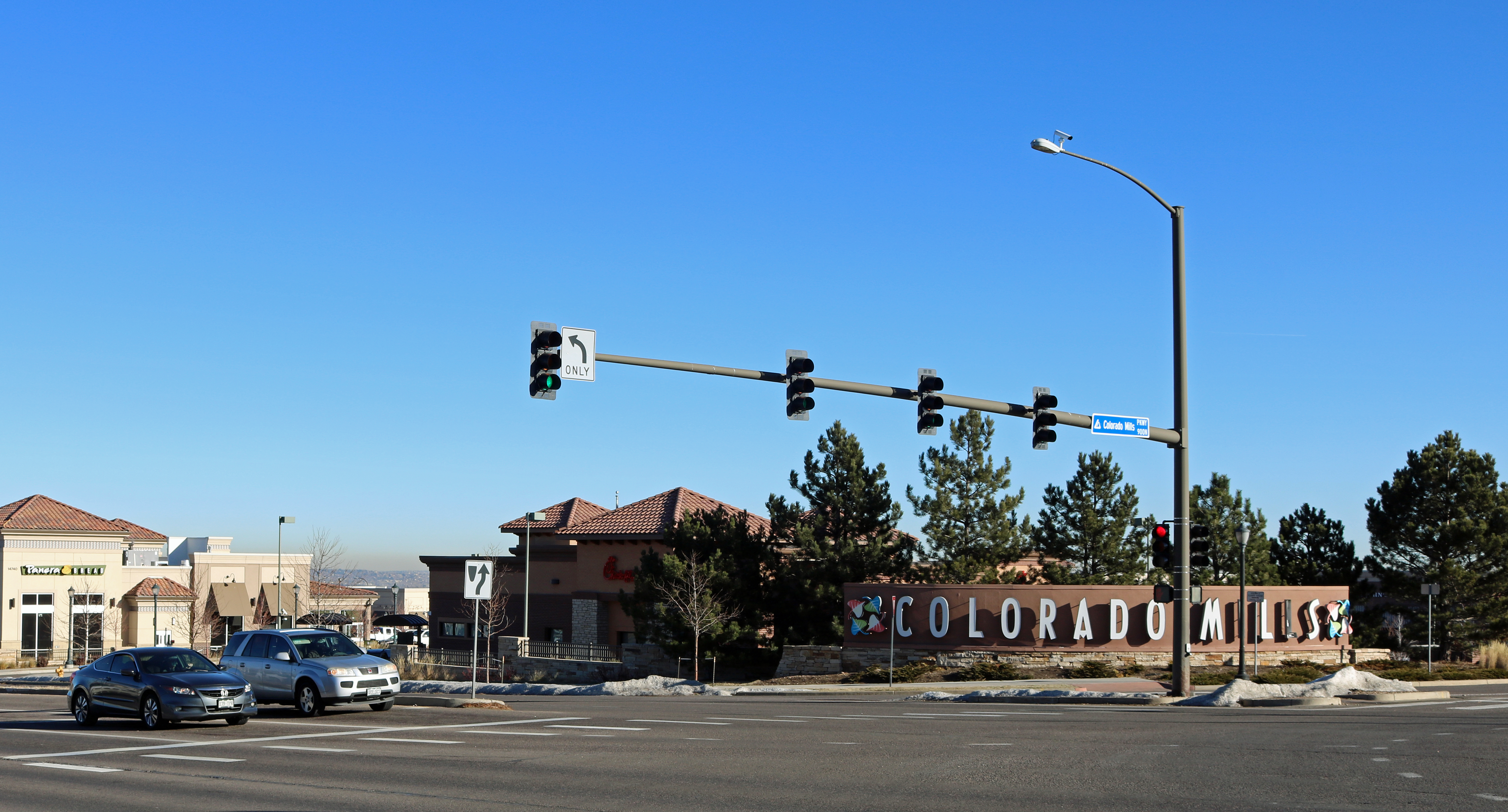 One of the entrances to the Colorado Mills shopping mall in Lakewood, Colorado. This entrance is at the intersection of Colorado Mills Parkway and Indiana Street.